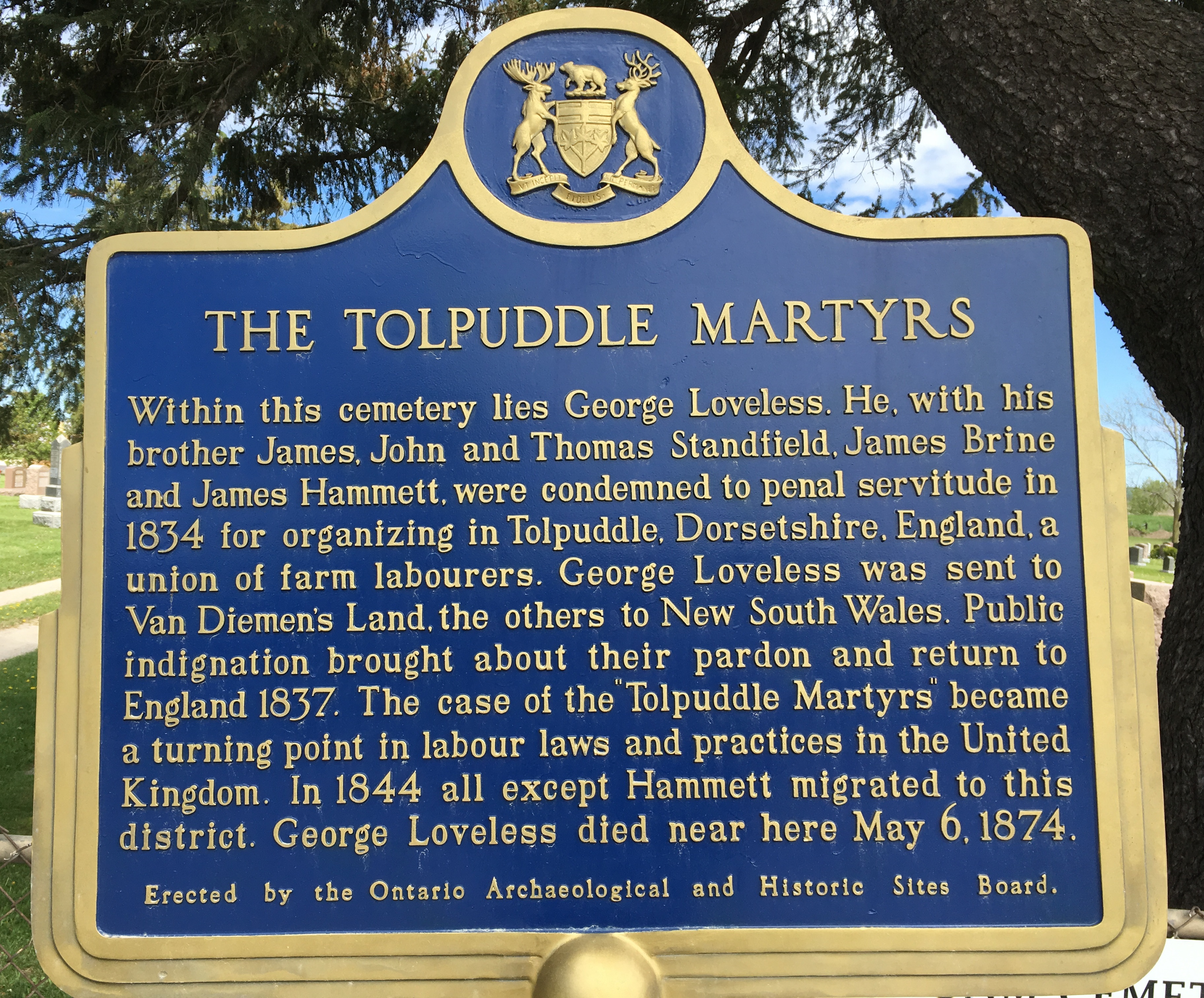 Historical plaque in Siloam Cemetery, London, Ontario, indicating that one of the Tolpuddle Martyrs, George Loveless, is buried there.